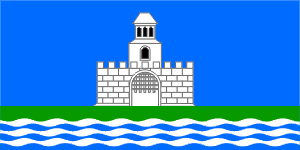 Flag of Łojeŭ